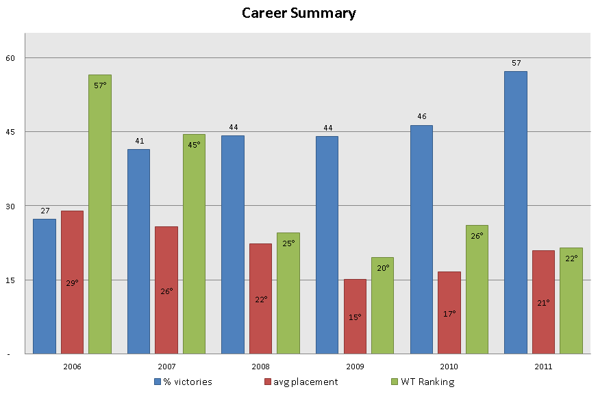 The image contains a graphical rapresentation of the results during the professional beach volleyball career of Giulia Momoli and Daniela Gioria